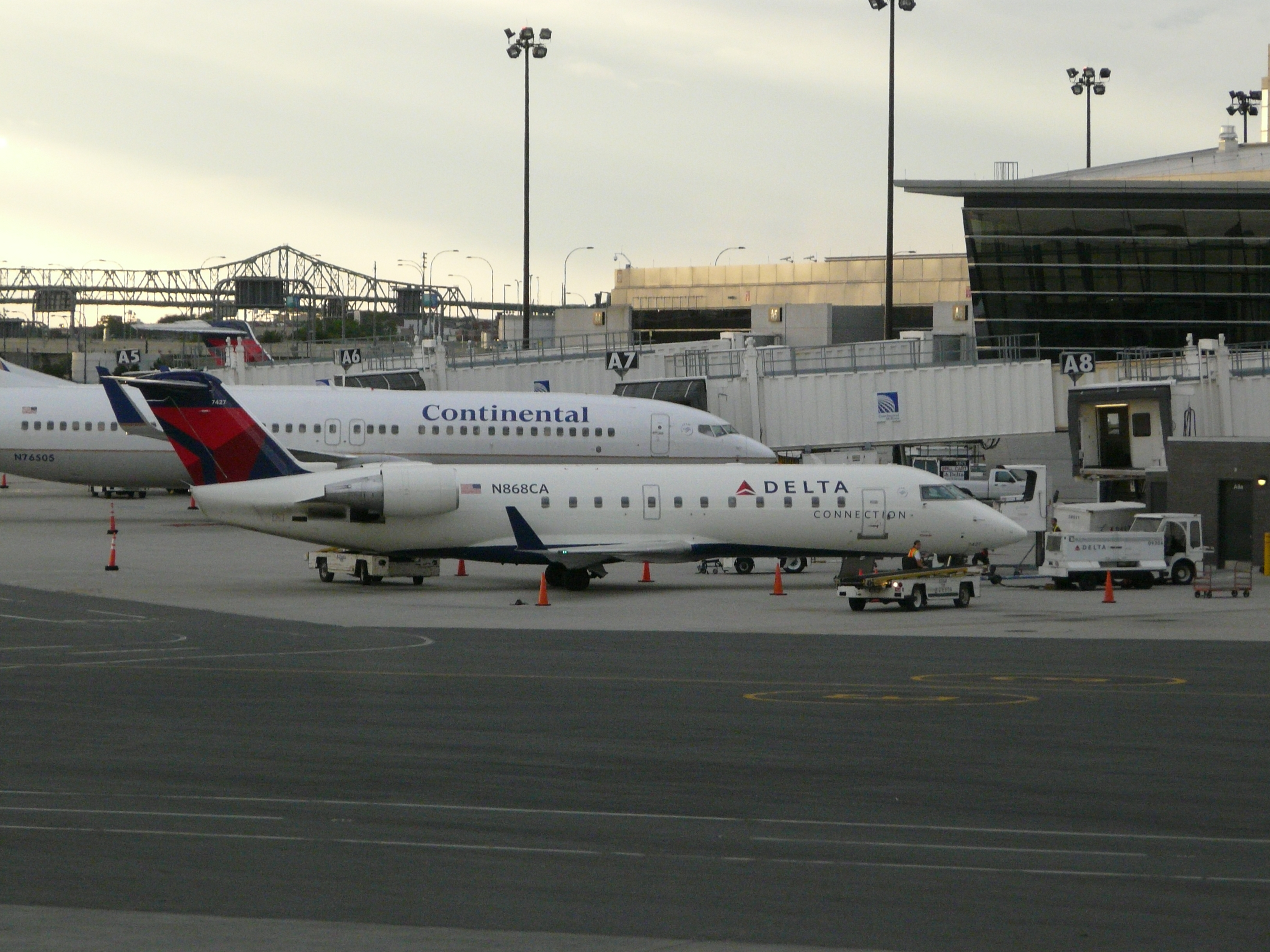 Delta Connection and Continental Airlines aircraft at Boston Logan Airport.